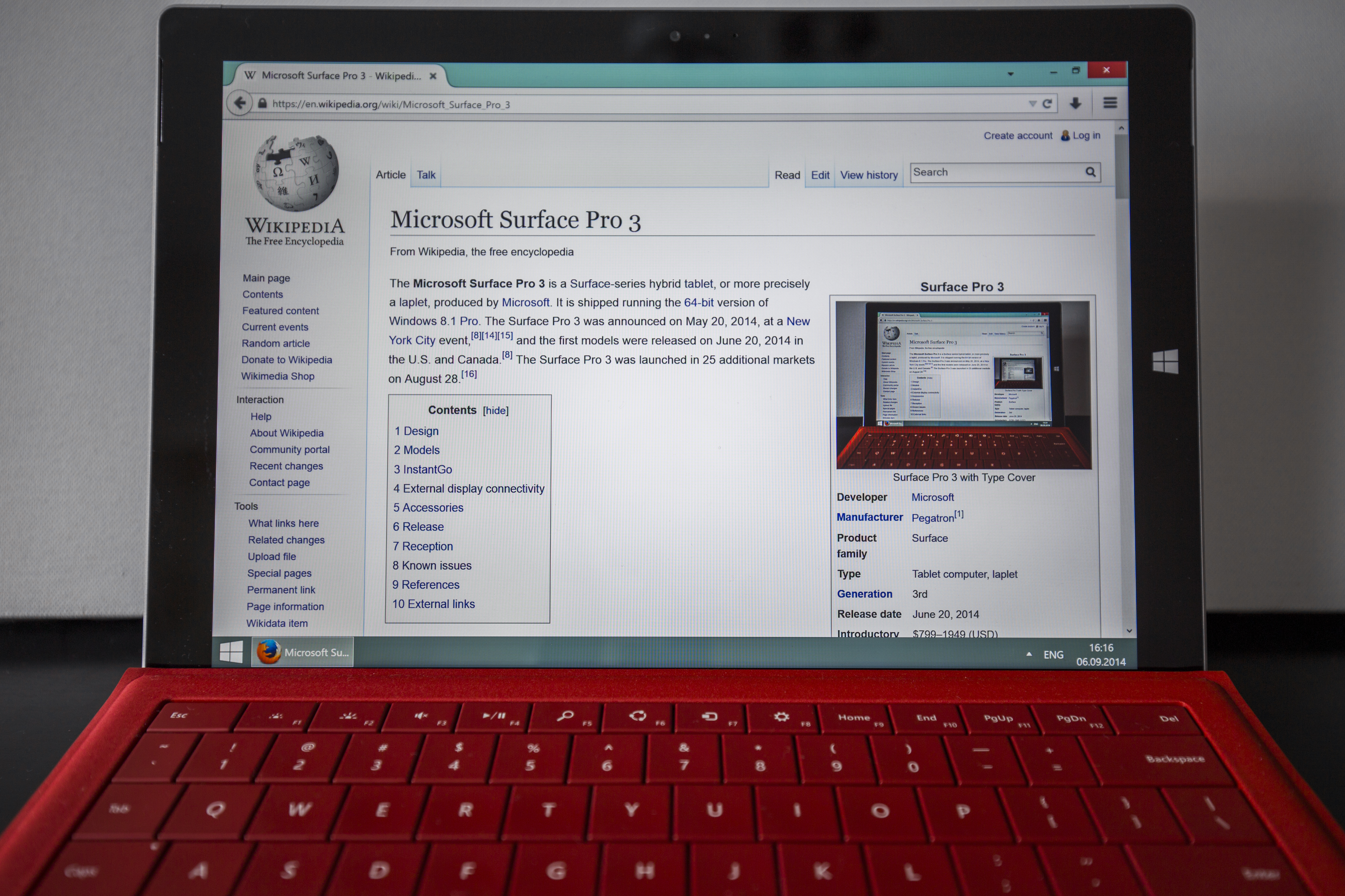 Microsoft Surface Pro 3 2-in-1 detachable tablet with a red Type Cover accessory attached.